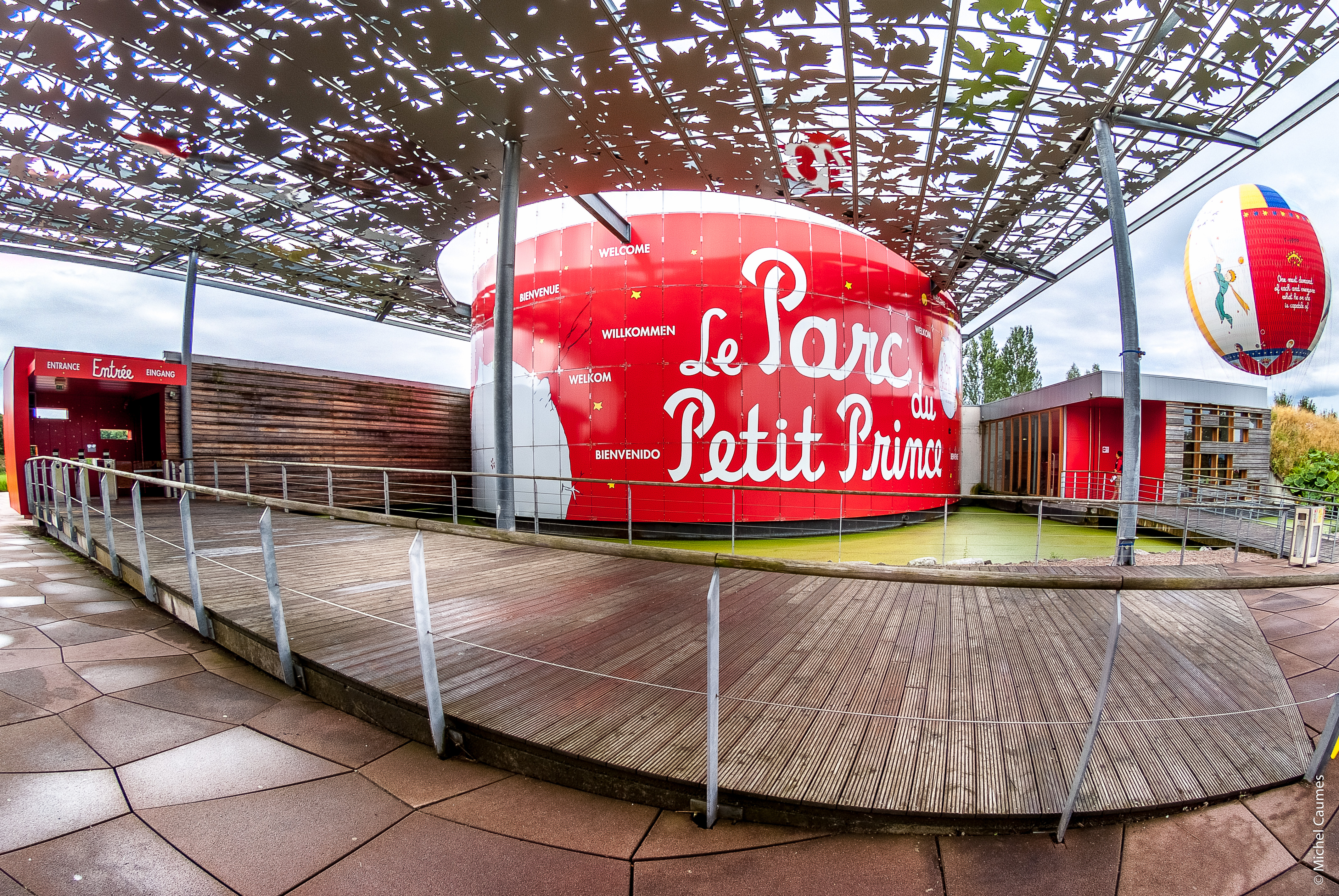 Entrée